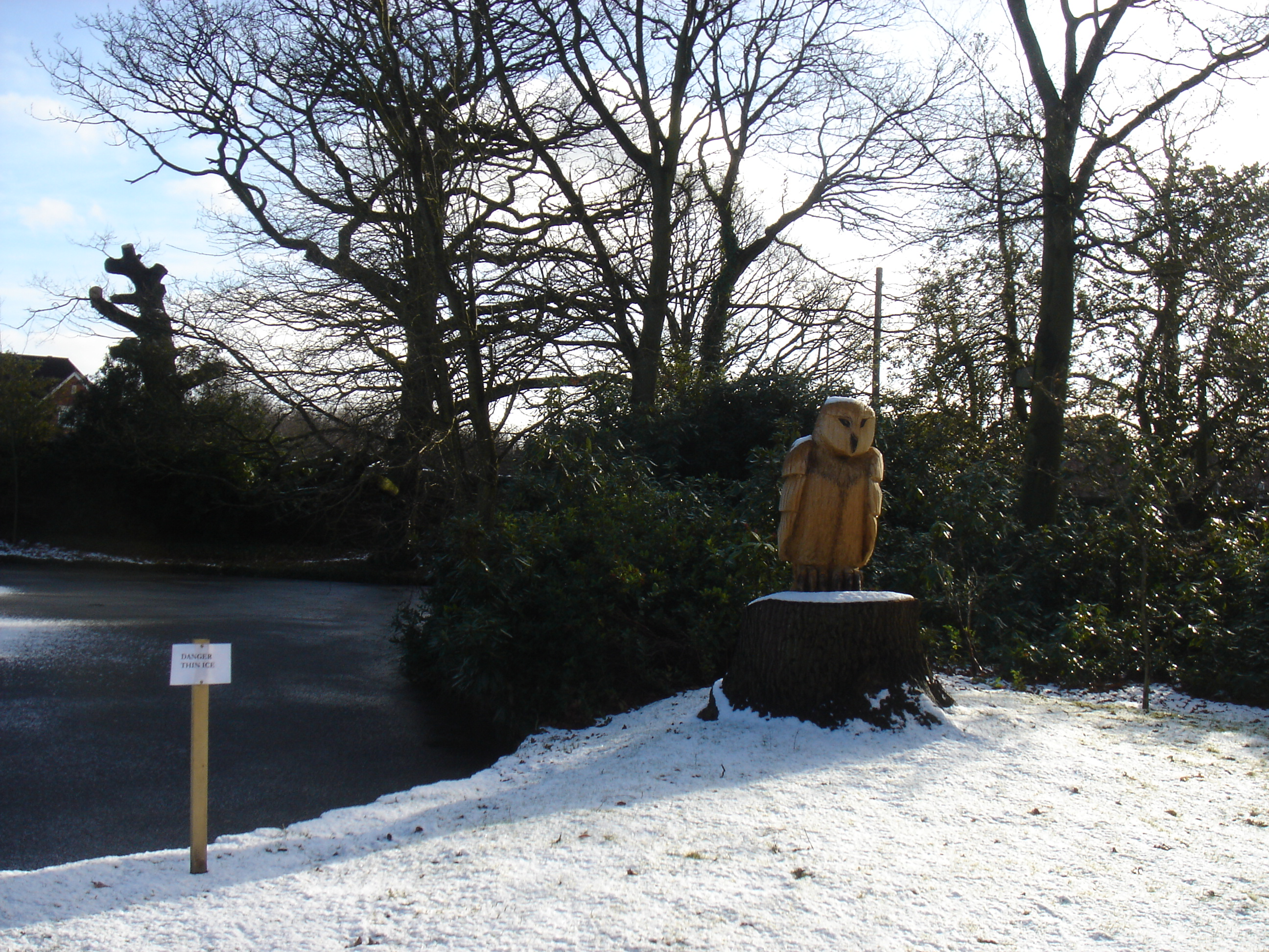 Grappenhall Heys Walled Garden Owl, tree stump Carving